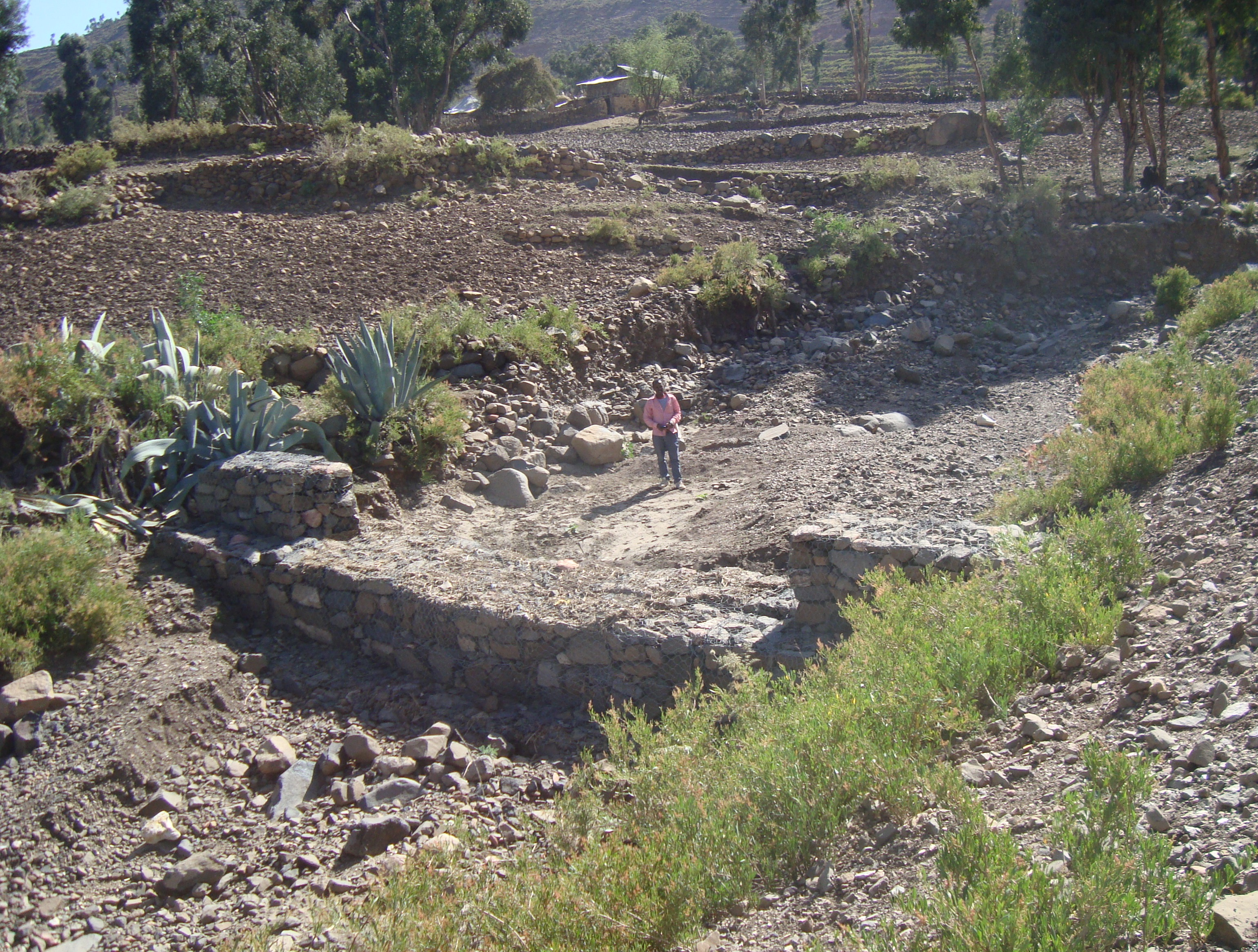 May harena in harena 2